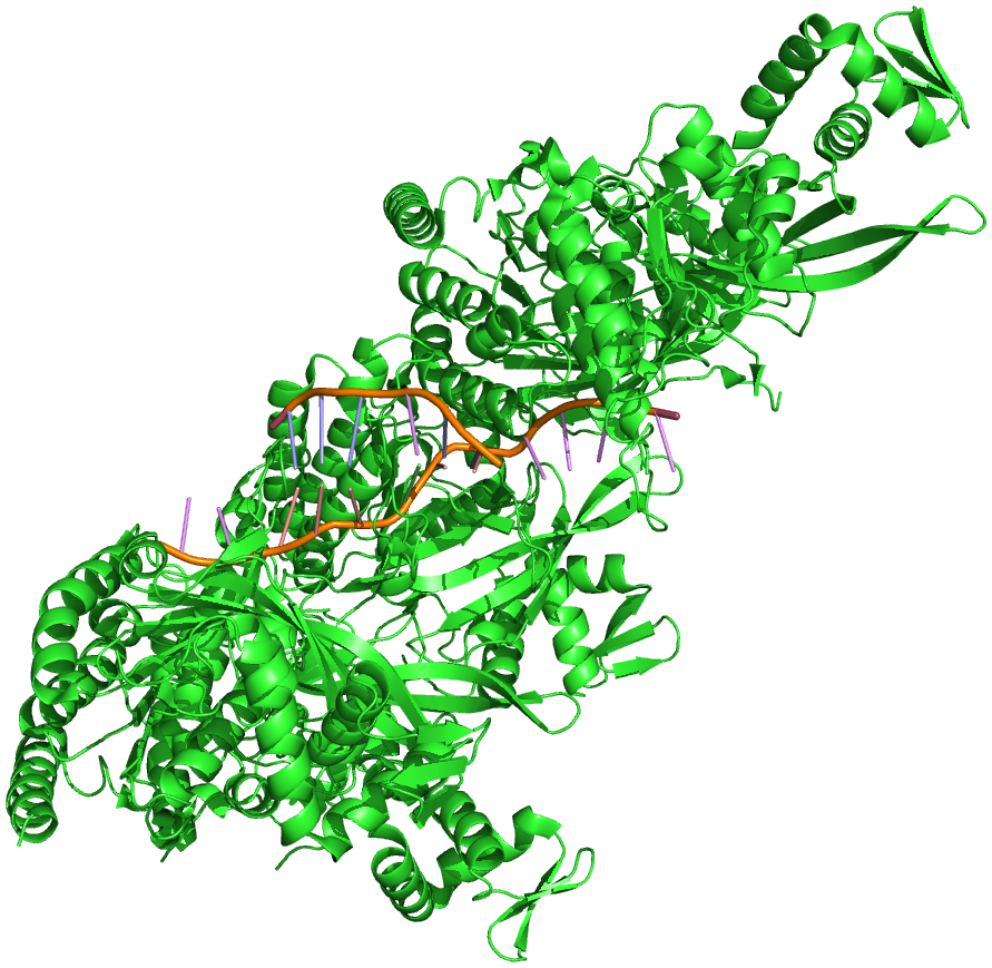 Crystal structure of RecA-DNA complex. This protein from E. coli is essential for homologous recombination, which is an important mechanism of DNA repair. While many crystal structures of RecA had been previous solved, this structure was the first of RecA in complex with DNA.